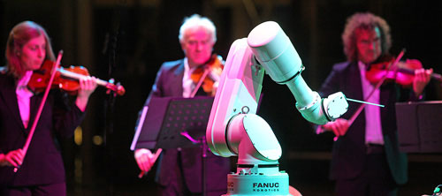 robot conductor